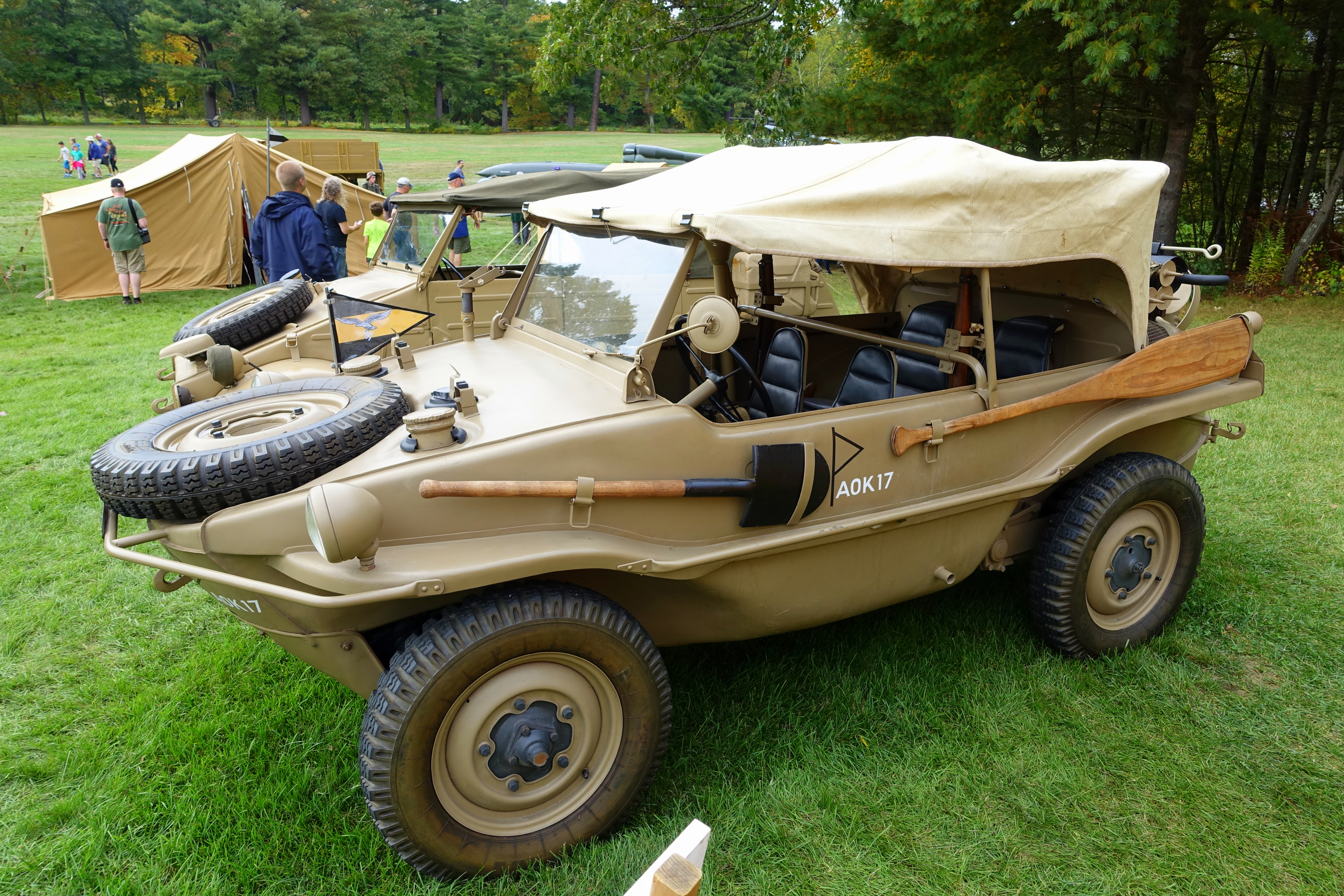 Battle for the Airfield, 2017 - Collings Foundation - Stow / Hudson, Massachusetts, USA.